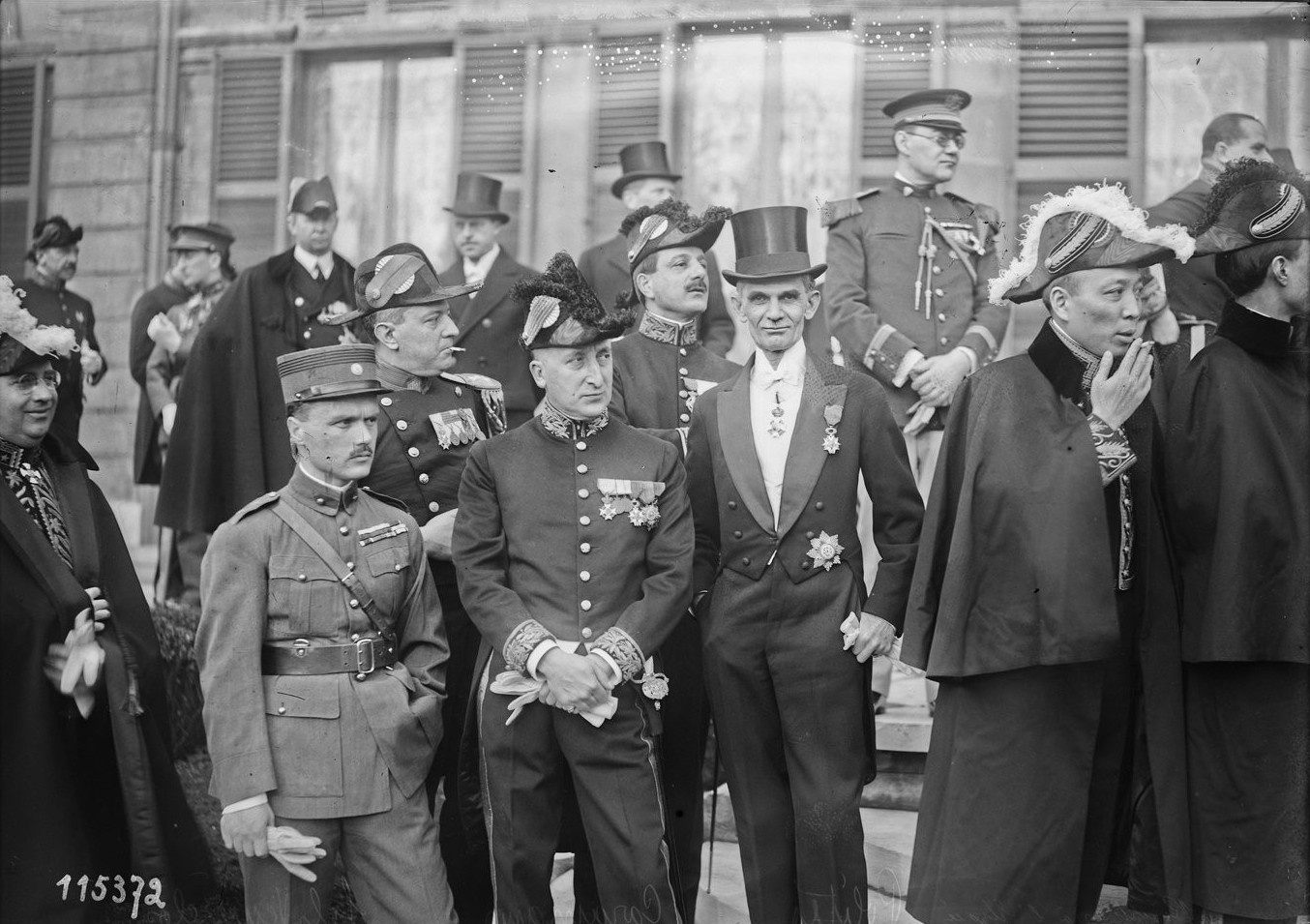 Reception at the Elysee Palace, 1.1.1927. Center, left to right, the Greek delegation: Sofoklis Venizelos, Alexandros Karapanos, Nikolaos Politis